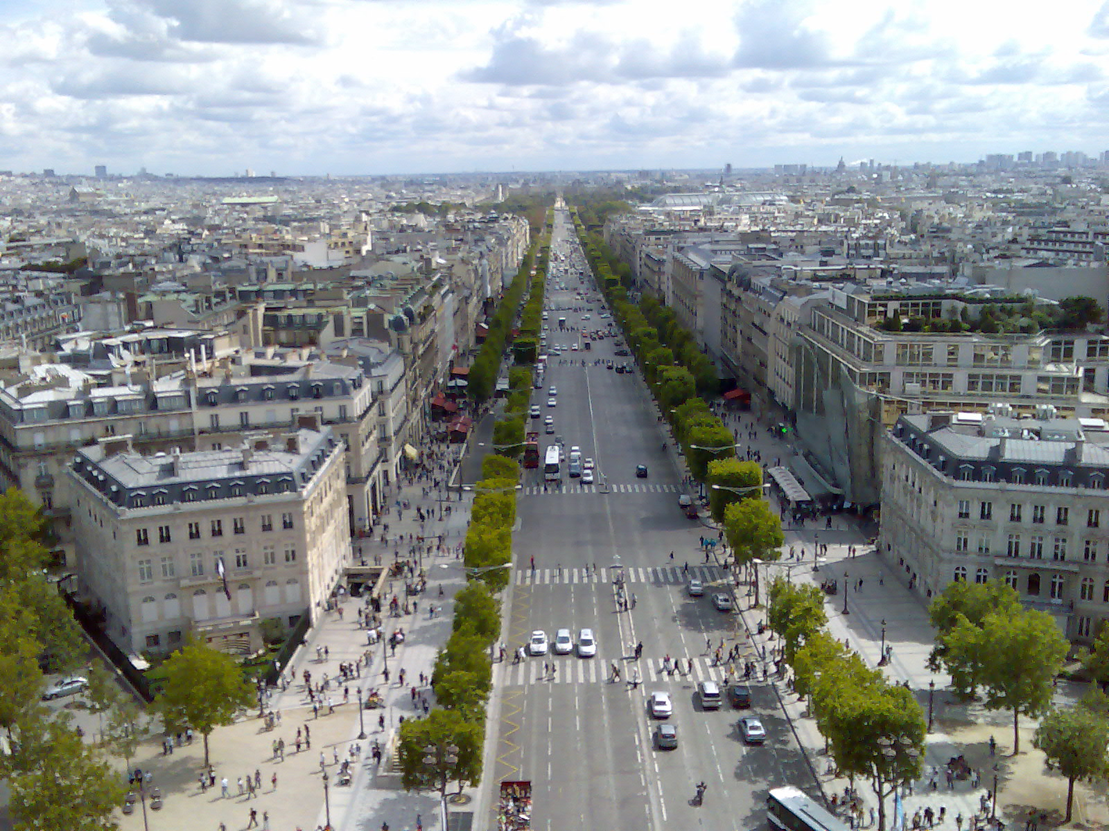 View from the summit of the Arc de Triomphe